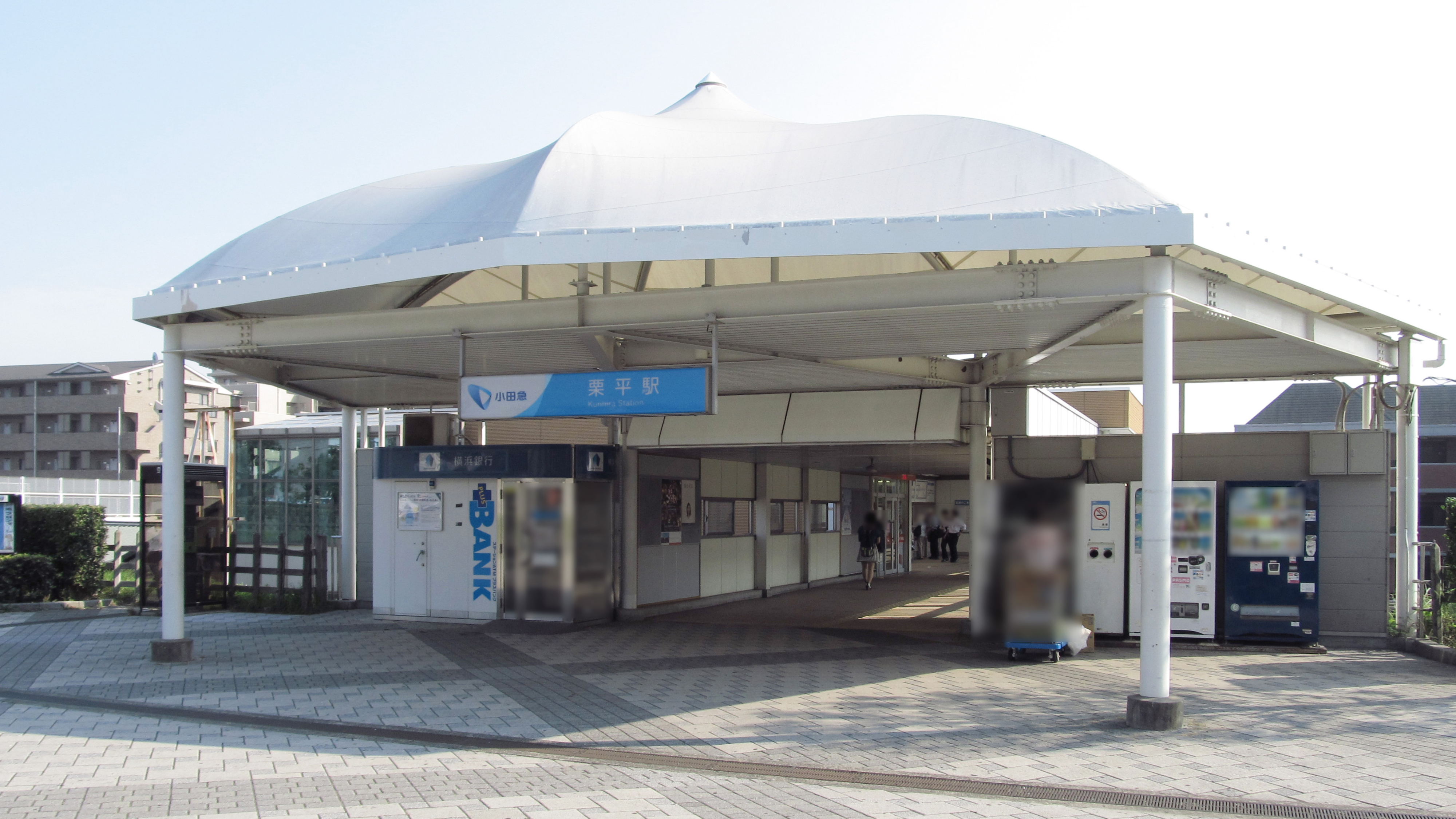 The north entrance to Kurihira Station on the Odakyu Tama Line in Asao ward, Kawasaki, Kanagawa Prefecture, Japan